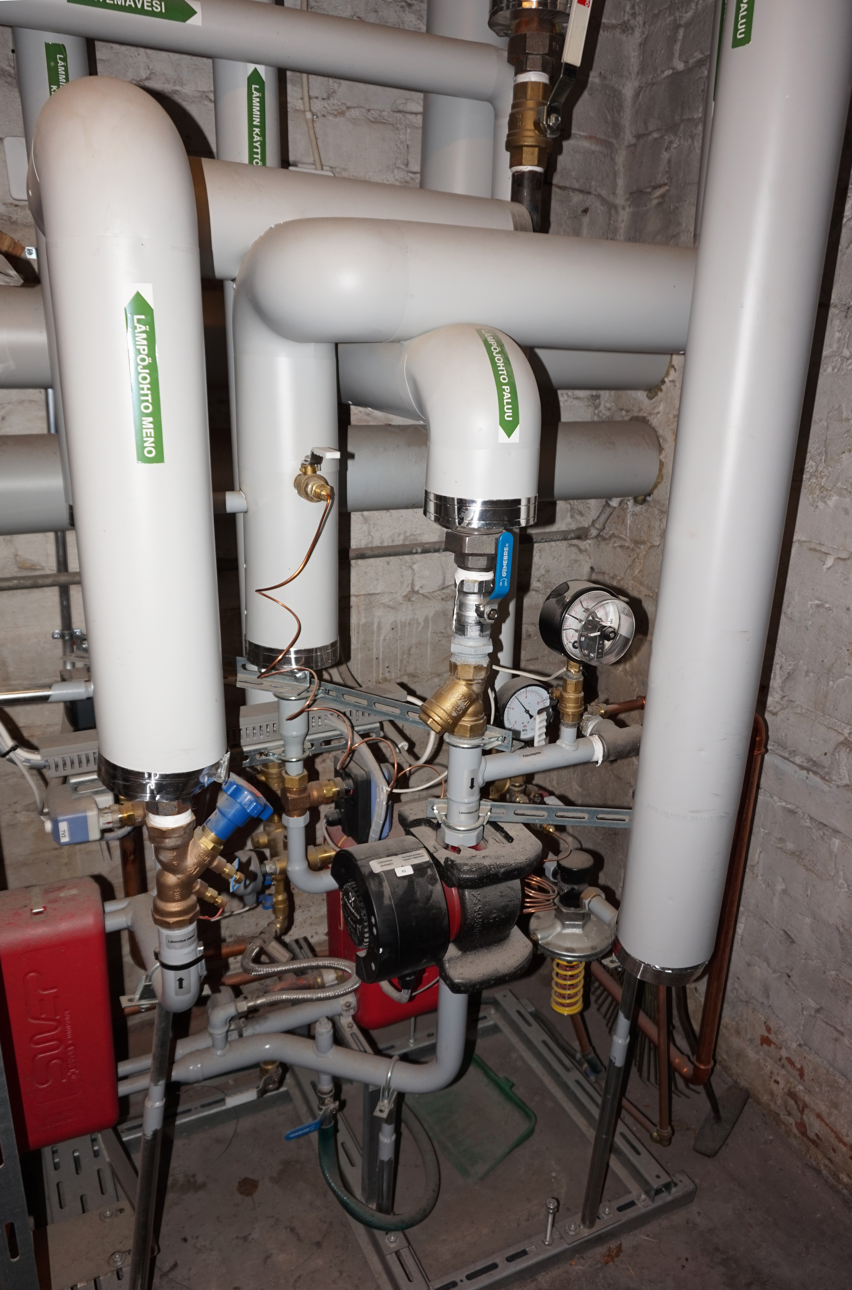 Gebwell district heating substation inside a building, Jyväskylä.